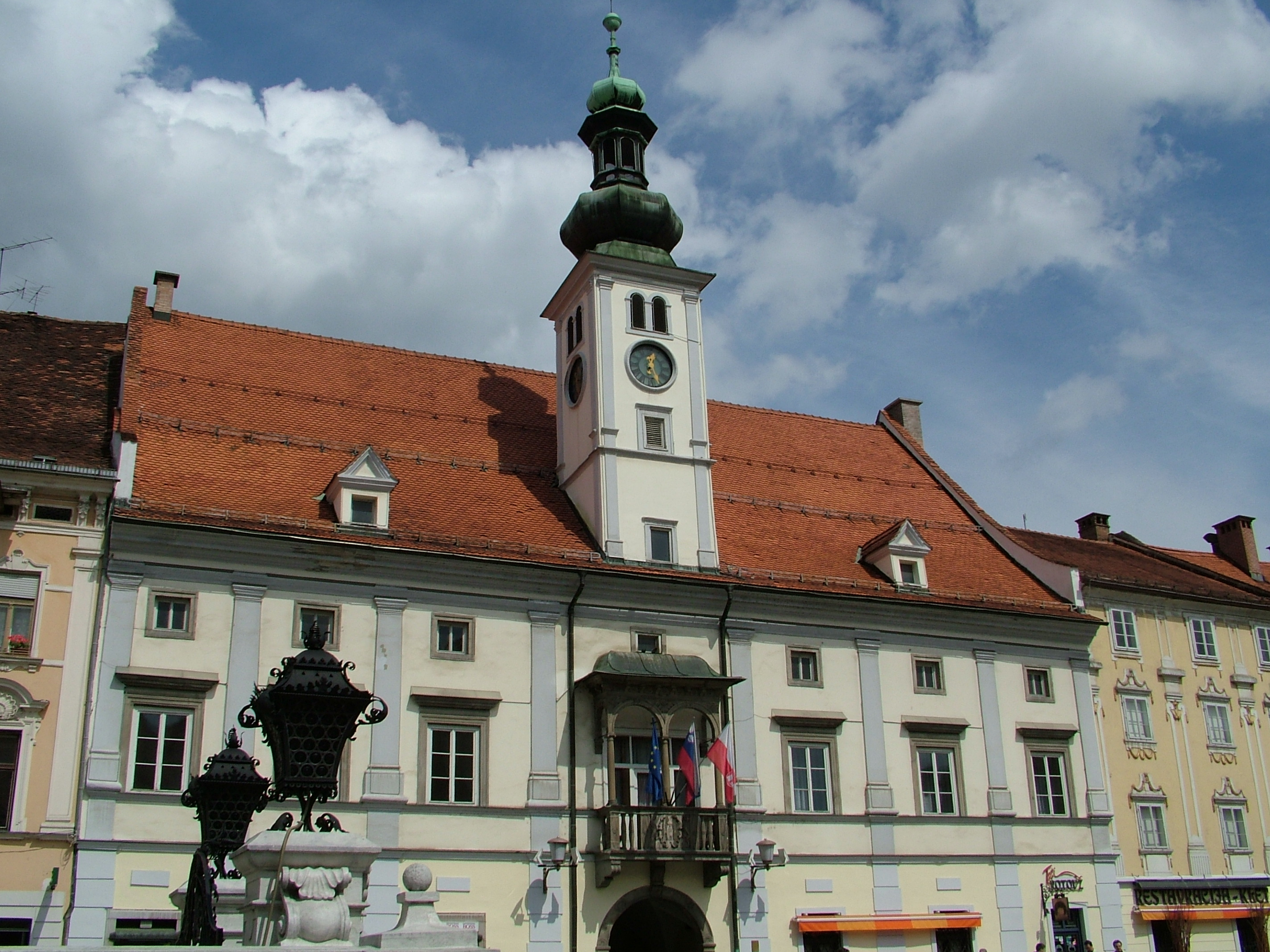 Maribor Town Hall on the Main Square was built in 1515. The building was completely reconstructed between 1563 and 1565 by Italian masters transforming it into a Renaissance style building.